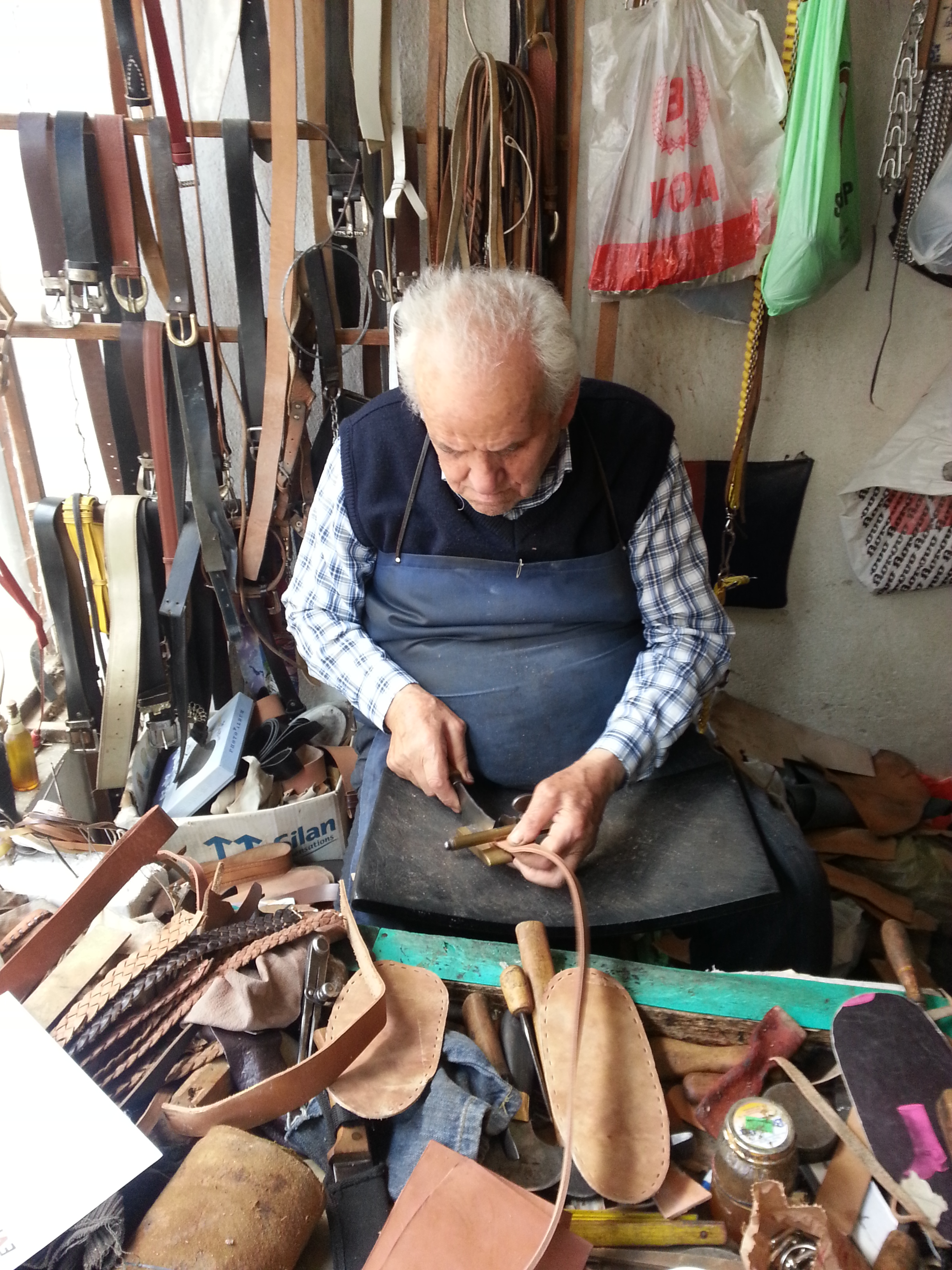 Opanak - Traditional crafts